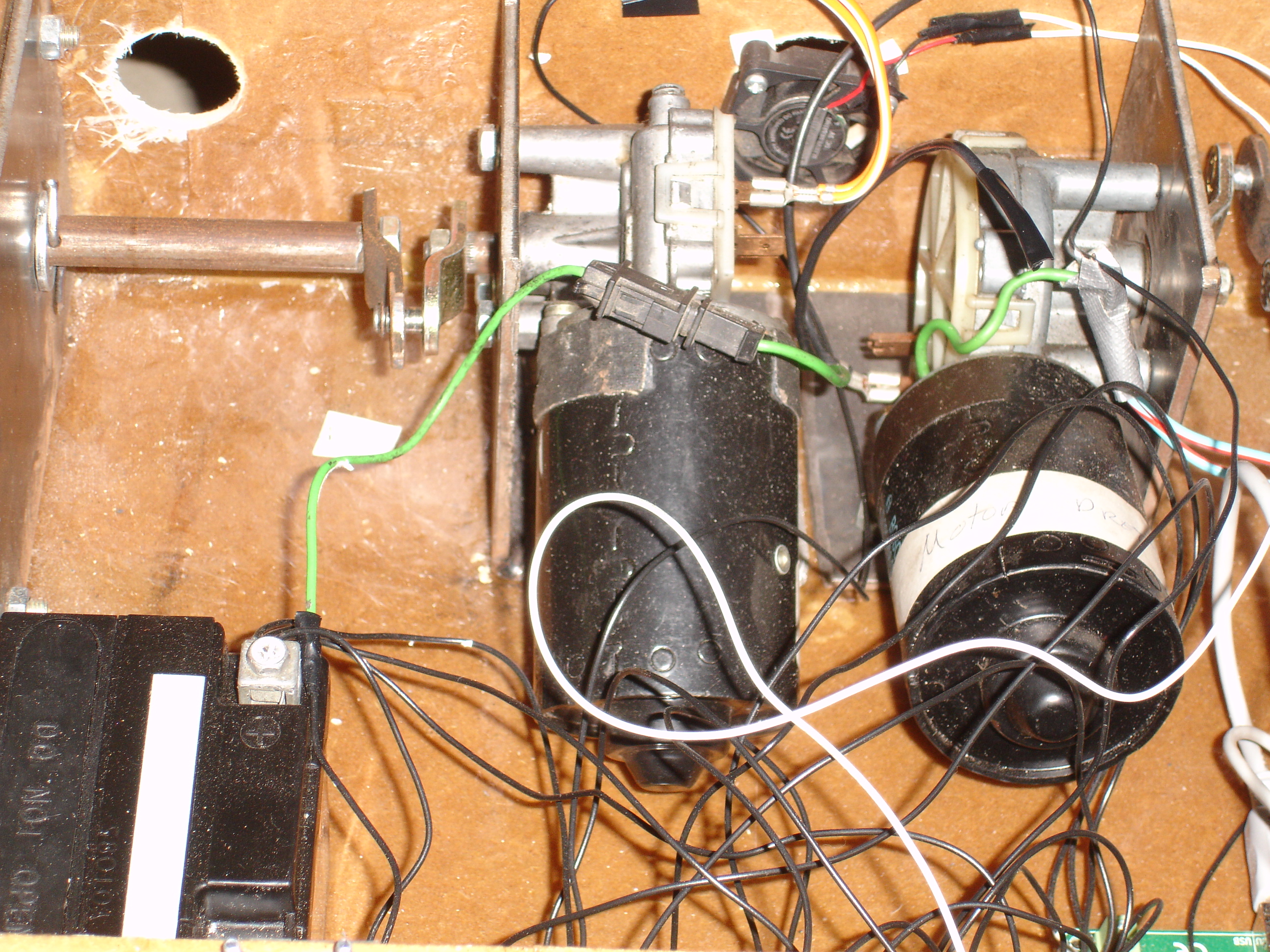 Image of three brushed DC electric motors, two windshield 12V motors and a little 6V motor of the robotic aplication TAMABC-10 (